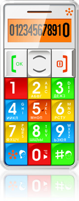 Just5 CP09 mika